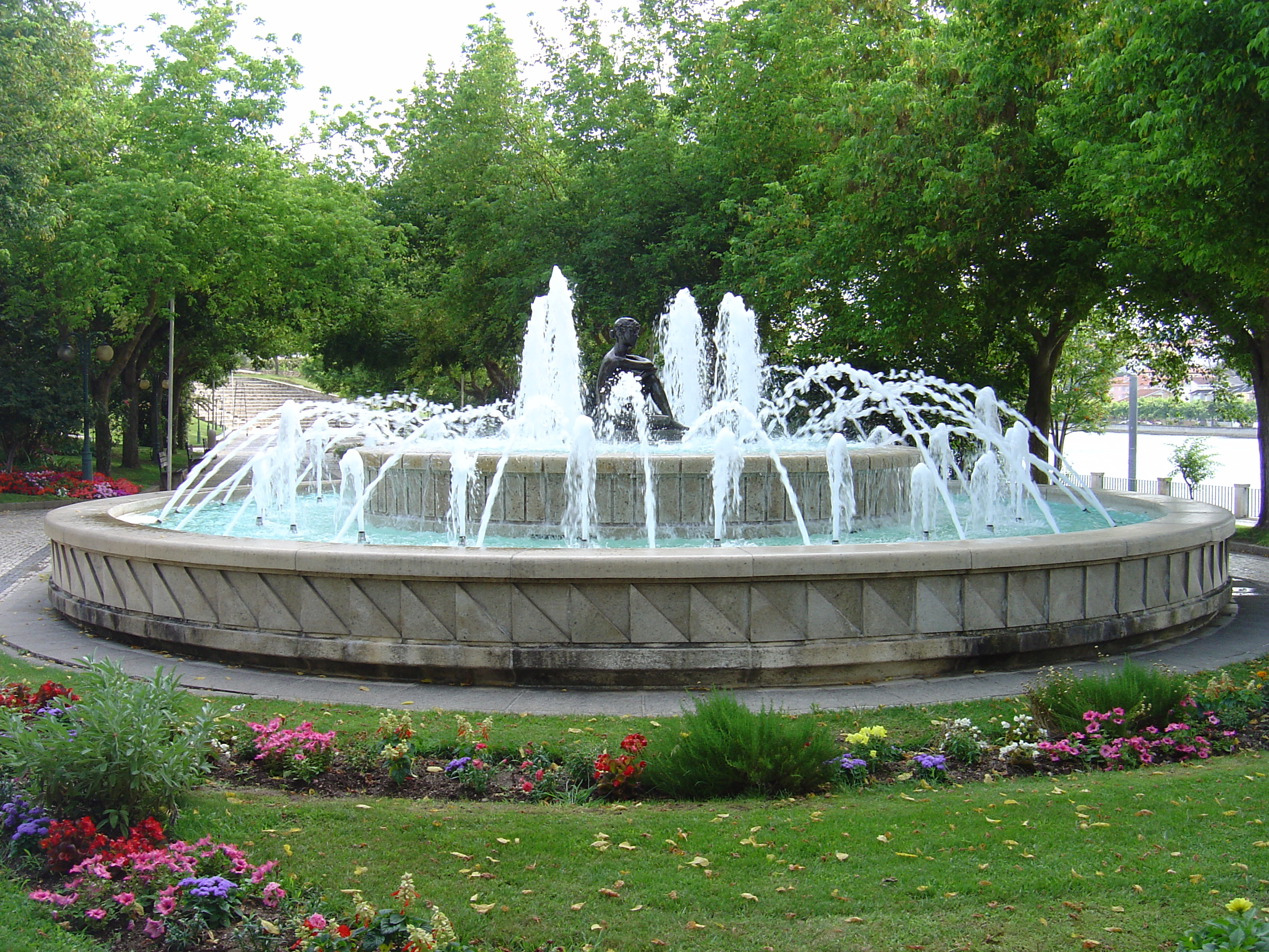 Mirandela, Portugal